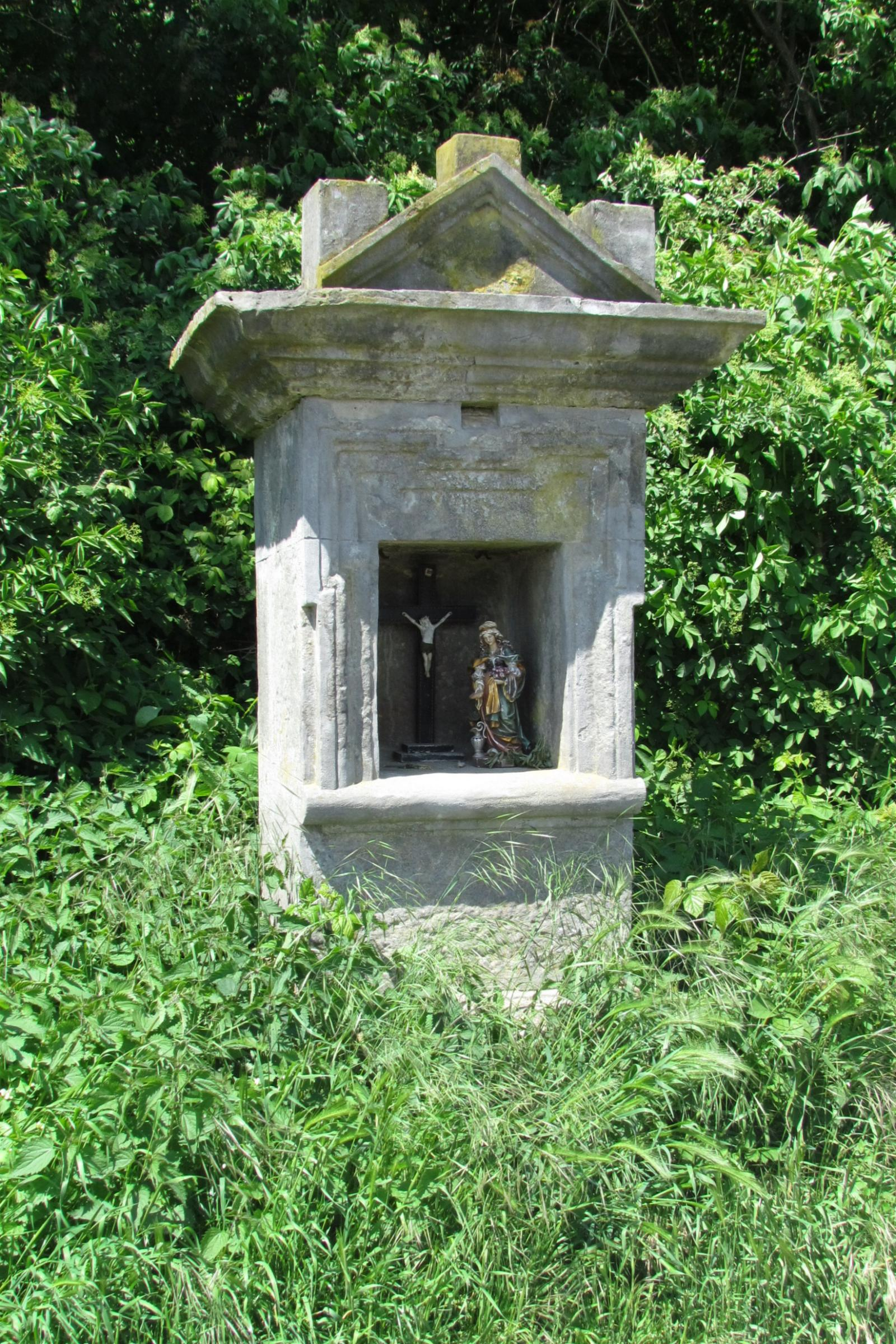 This is a photograph of an architectural monument.It is on the list of cultural monuments of Korschenbroich